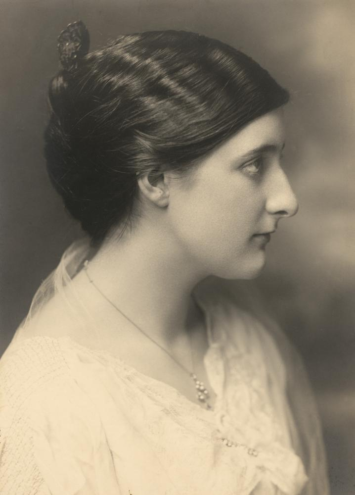 ID number: H19278 Photographer: unknown Place: unknown Vera Deakin, daughter of former Prime Minister Alfred Deakin, established the Australian Branch of the Wounded and Missing Enquiry Bureau in 1915. The bureau played an important role throughout the war, providing an official link between anxious relatives and military officials. Following the war Deakin married Thomas White, a former prisoner of war and the only Australian to have escaped from a Turkish prisoner–of–war camp. She remained active in the Australian Red Cross until the 1970s. She died on 9 August 1978, aged 86. Rights Info: No known copyright restrictions. This photograph is from the Australian War Memorial's collection Persistent URL